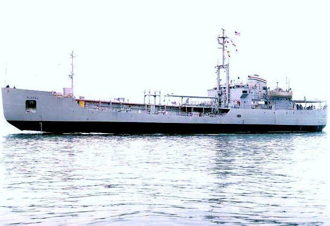 Alatna (T-AOT-81) underway, date and place unknown. US Navy photo